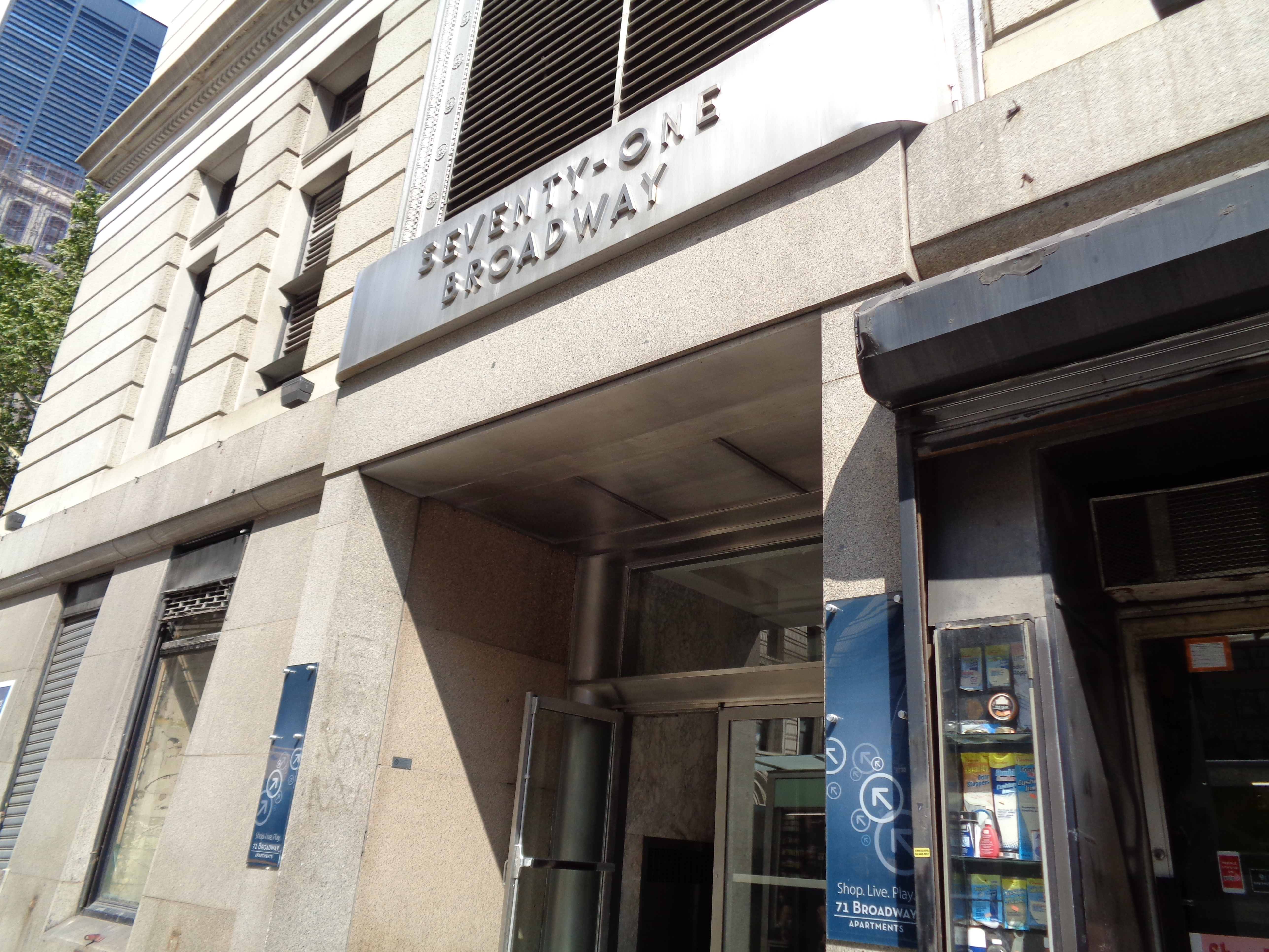 An entrance to 71 Broadway, a.k.a. the empire building, at Rector Street and Trinity Place in the Financial District, Manhattan.